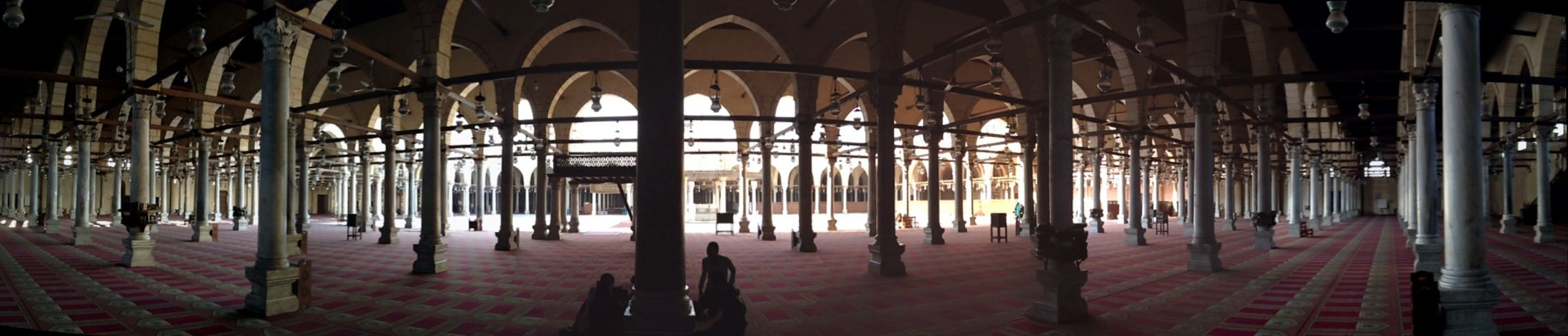 Panorama view of the Mosque of Amr, Old Cairo